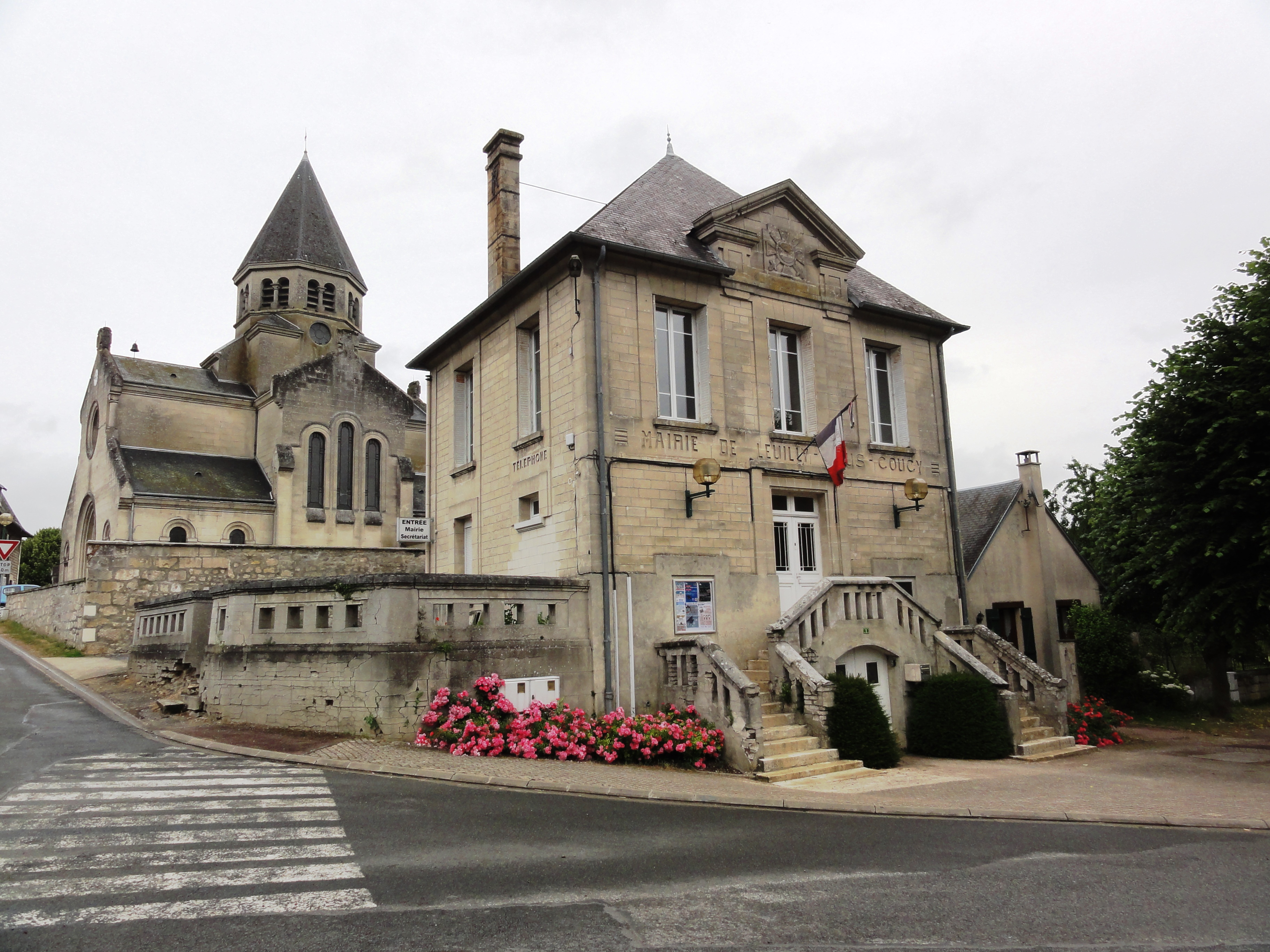 Leuilly-sous-Coucy (Aisne) mairie et église